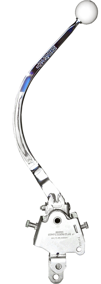 Photo of a Hurst shifter, this model a "Competition Plus" four speed shifter used in 60's automobiles with standard or manual transmissions. This particular unit is designed for a mid to late sixties Ford full size or Fairlane. It's fitted with a shifter arm fashioned to clear a bench seat. The photo was taken with a FinePix S602 Zoom camera.